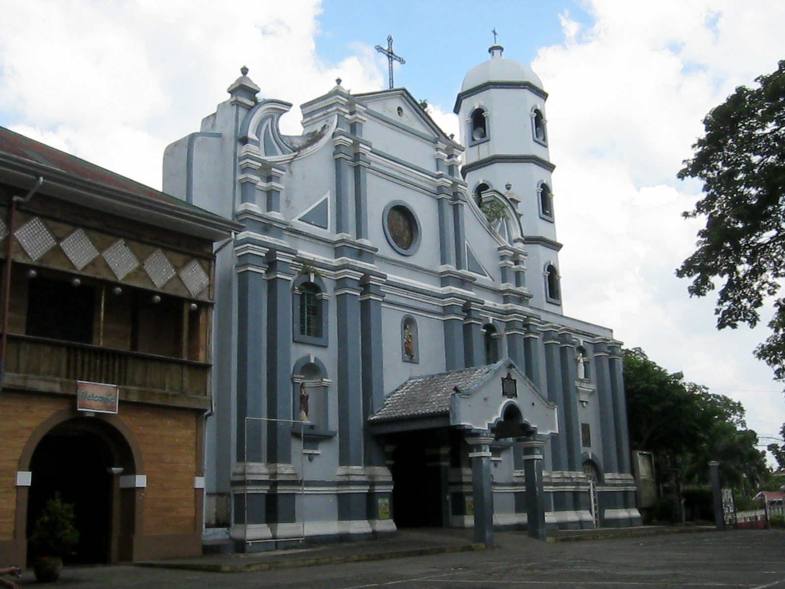 Facade